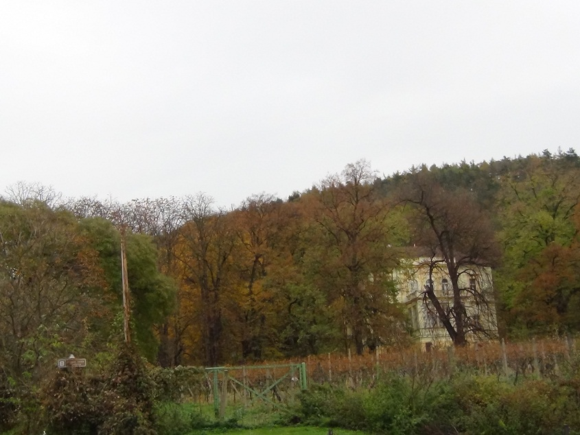 Nature reserve Máslovická stráň in Prague-East District, Czech Republic